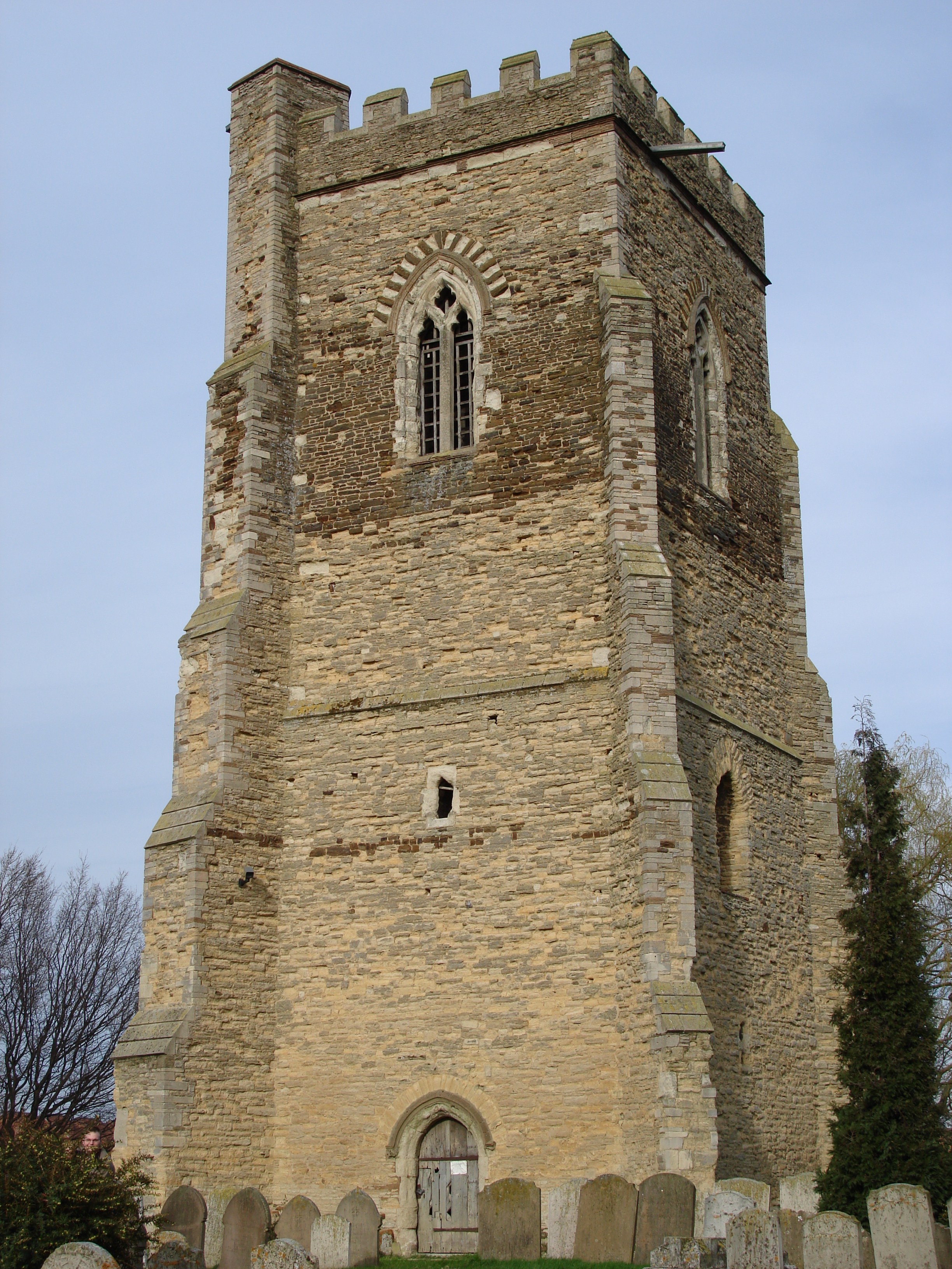 St Mary The Virgin Tower. Photo - GrahameR 2007